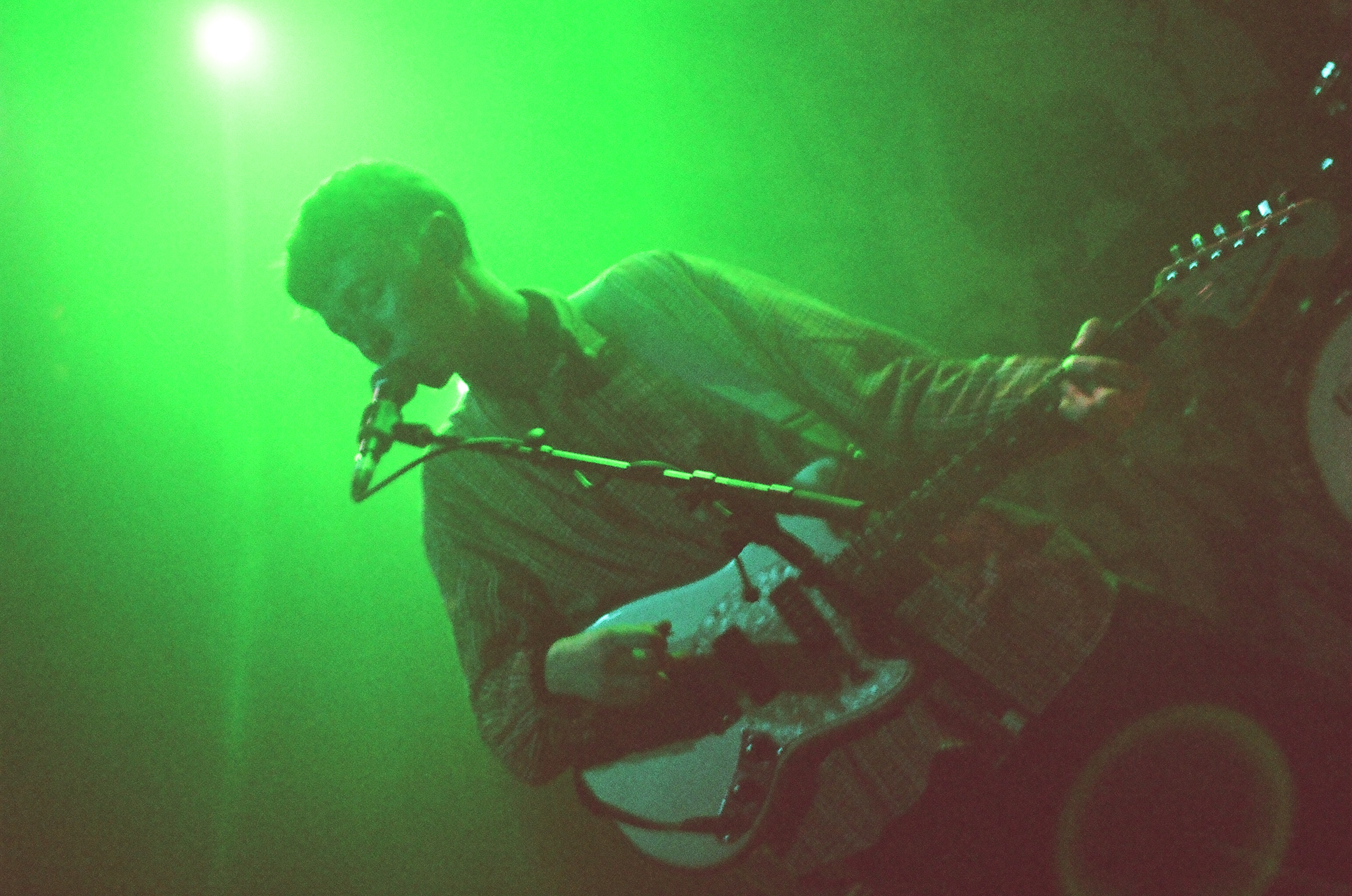 King Krule performing in Brooklyn in 2017.